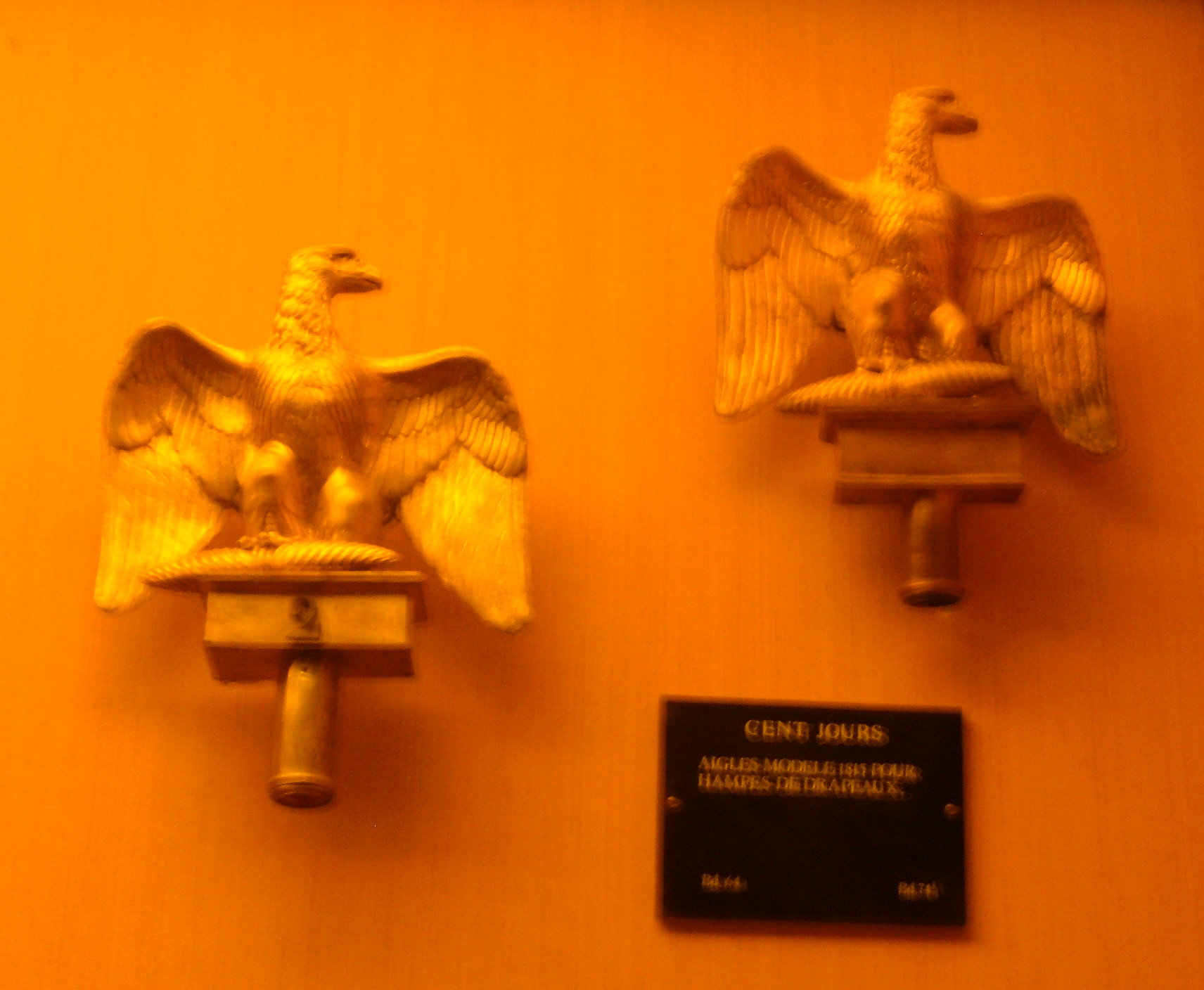 Two Model 1815 French Imperial Eagles from the Hundred Days on display at the Musée de l'Armée in Paris, France.